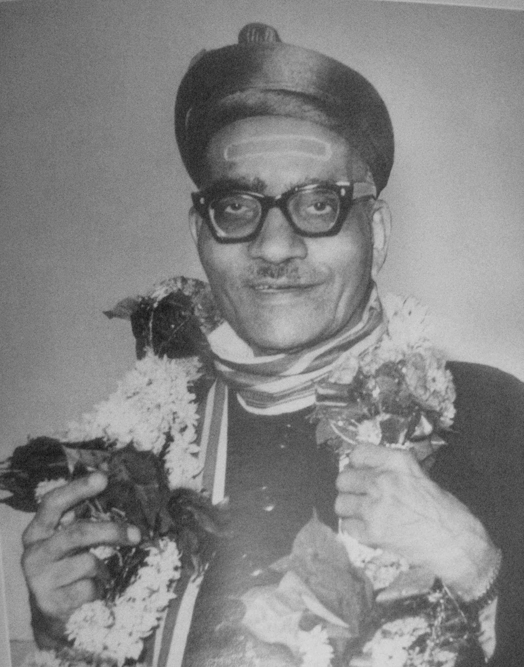 Datto Vaman Potdar Removed from the following pages: Datto Vaman Potdar --OrphanBot (talk) 06:35, 16 March 2008 (UTC)